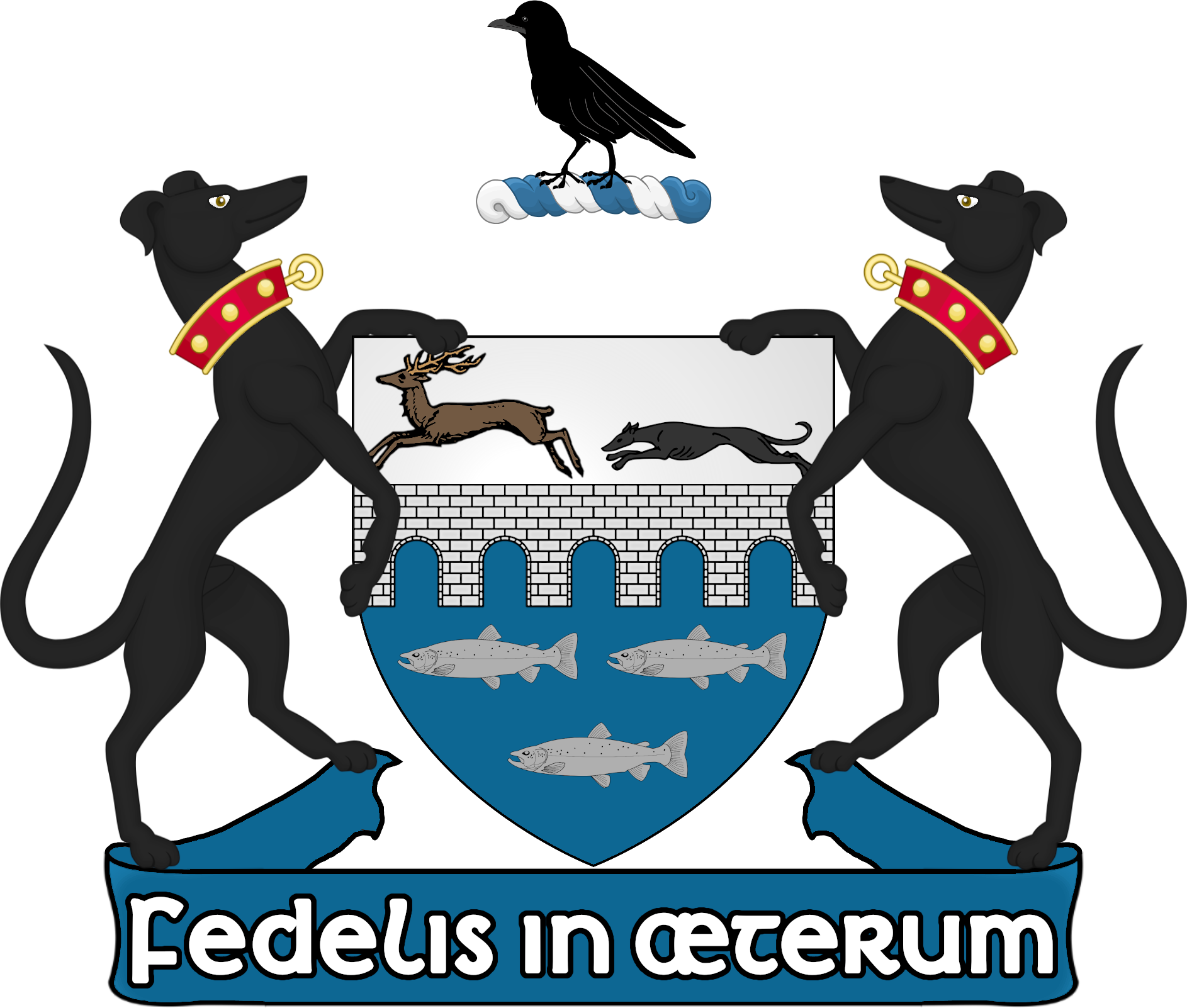 The Coat of Arms of the town of Clonmel in the Republic of Ireland, as per the Blazon: Arms : Argent on a bridge of five arches proper resting on a point azure therein three fishes naiant, 2 and 1, of the first a stag in full course of the second attired or pursued by a springing greyhound sable langued gules. Crest: A raven proper Supporters : Two greyhounds proper collared gules edged gold. Motto: Fidelis in aeternum